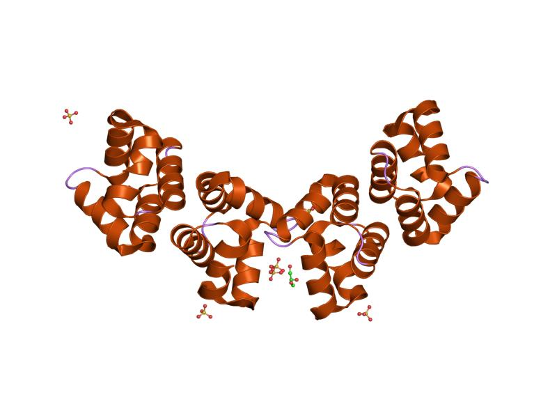 Cartoon representation of the molecular structure of protein registered with 1o82 code.